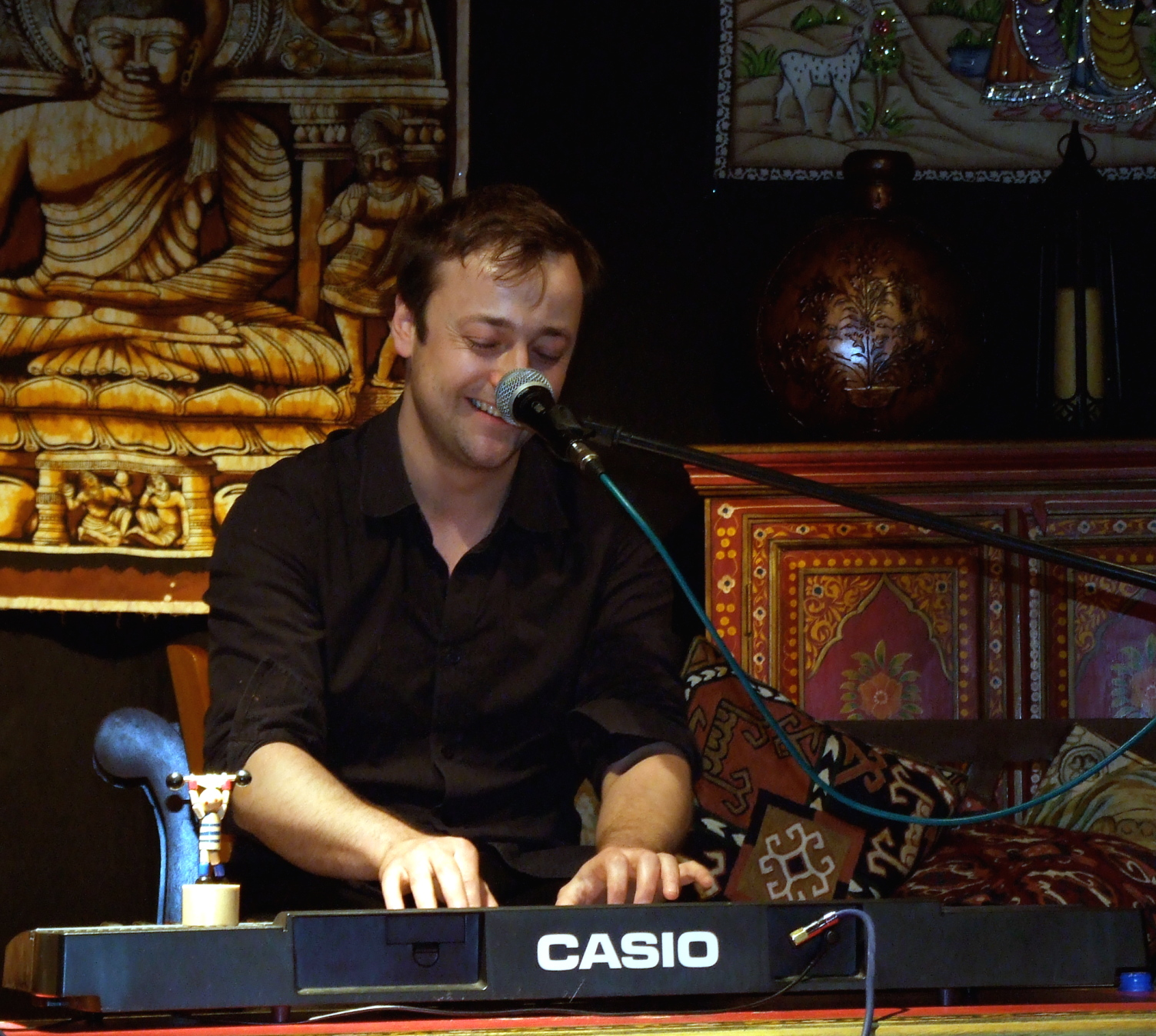 Czesław Mozil (Czesław Śpiewa); Wrocław, Poland